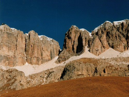 Passo Pordoi picture taken by user Idéfix 2001 earlier uploaded on Dutch Wikipedia as